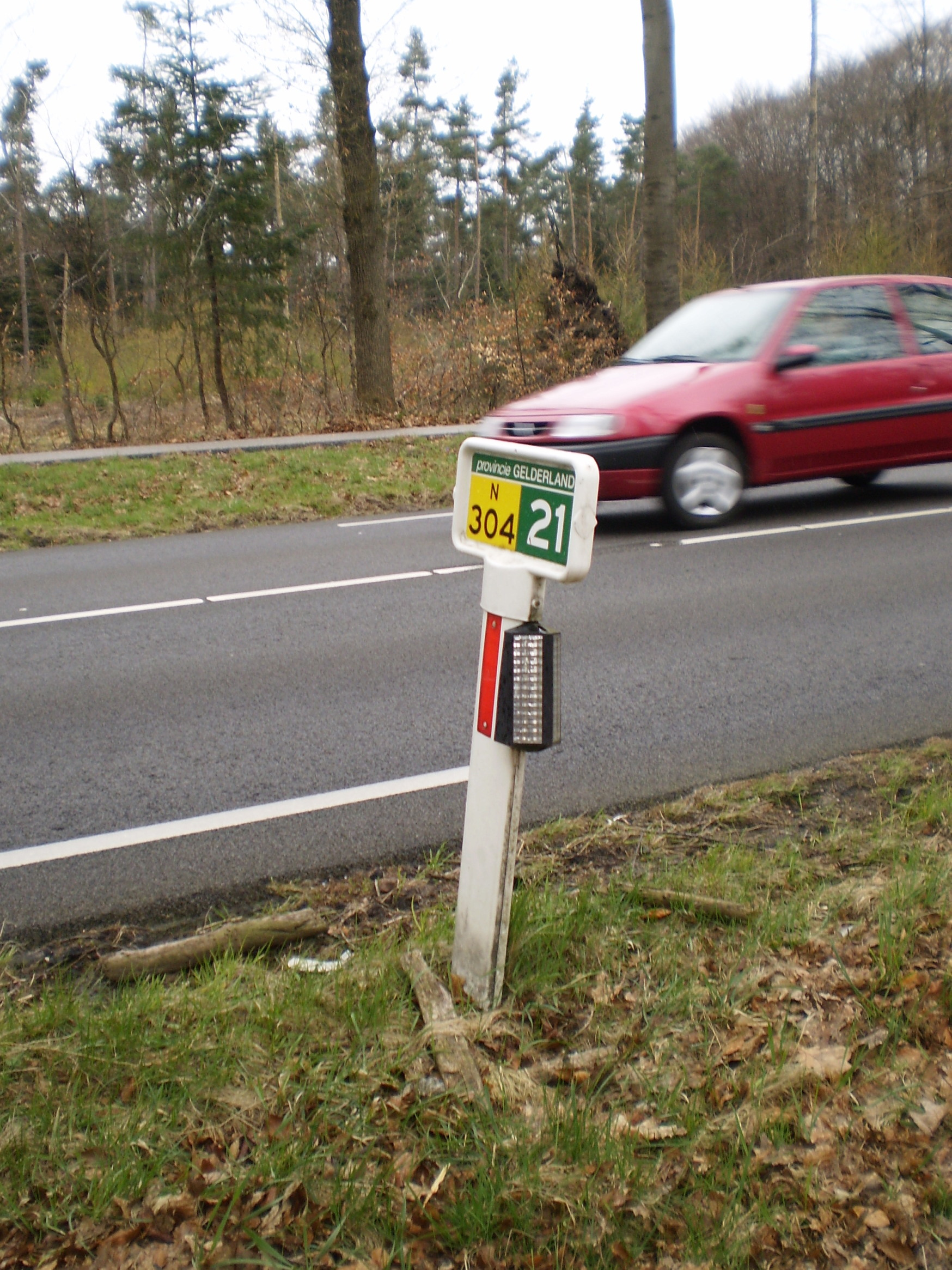 Mirror in the Netherlands to warn wild animals for road traffic, mounted on roadside reflector with hectometer sign